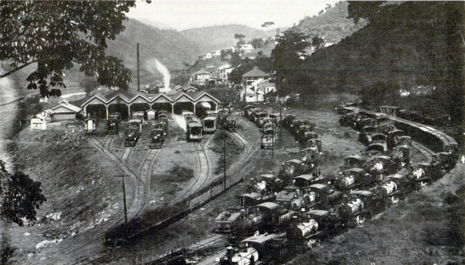 General view of railway shops, Paraiso, Panama